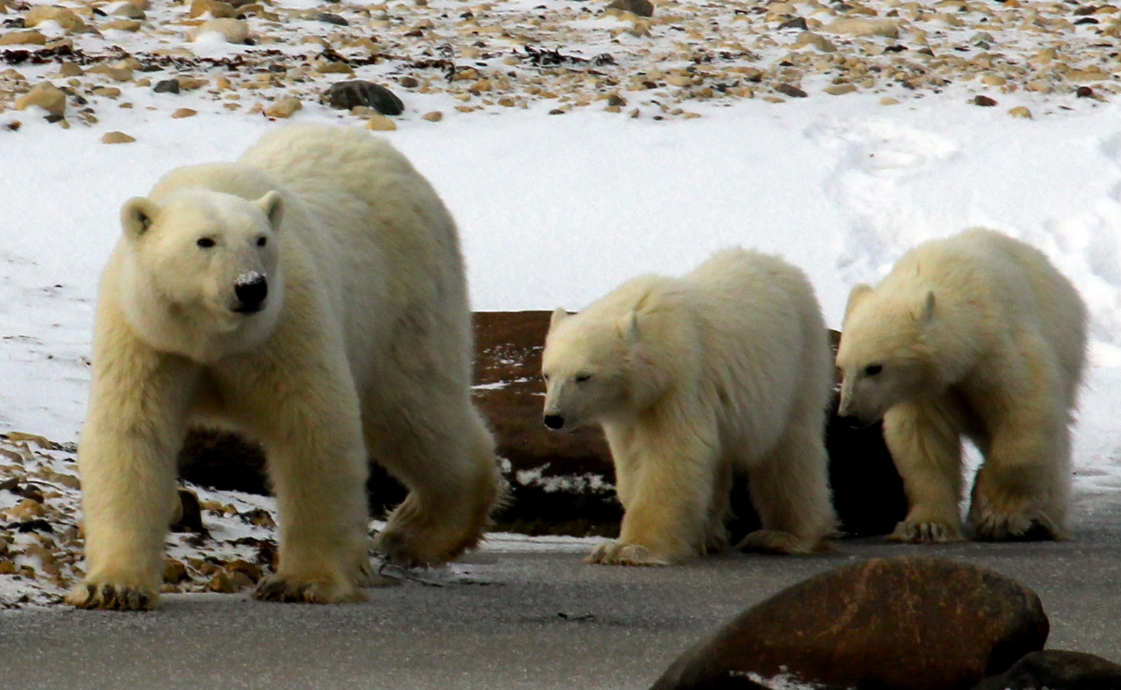 Chocolate and her cubs